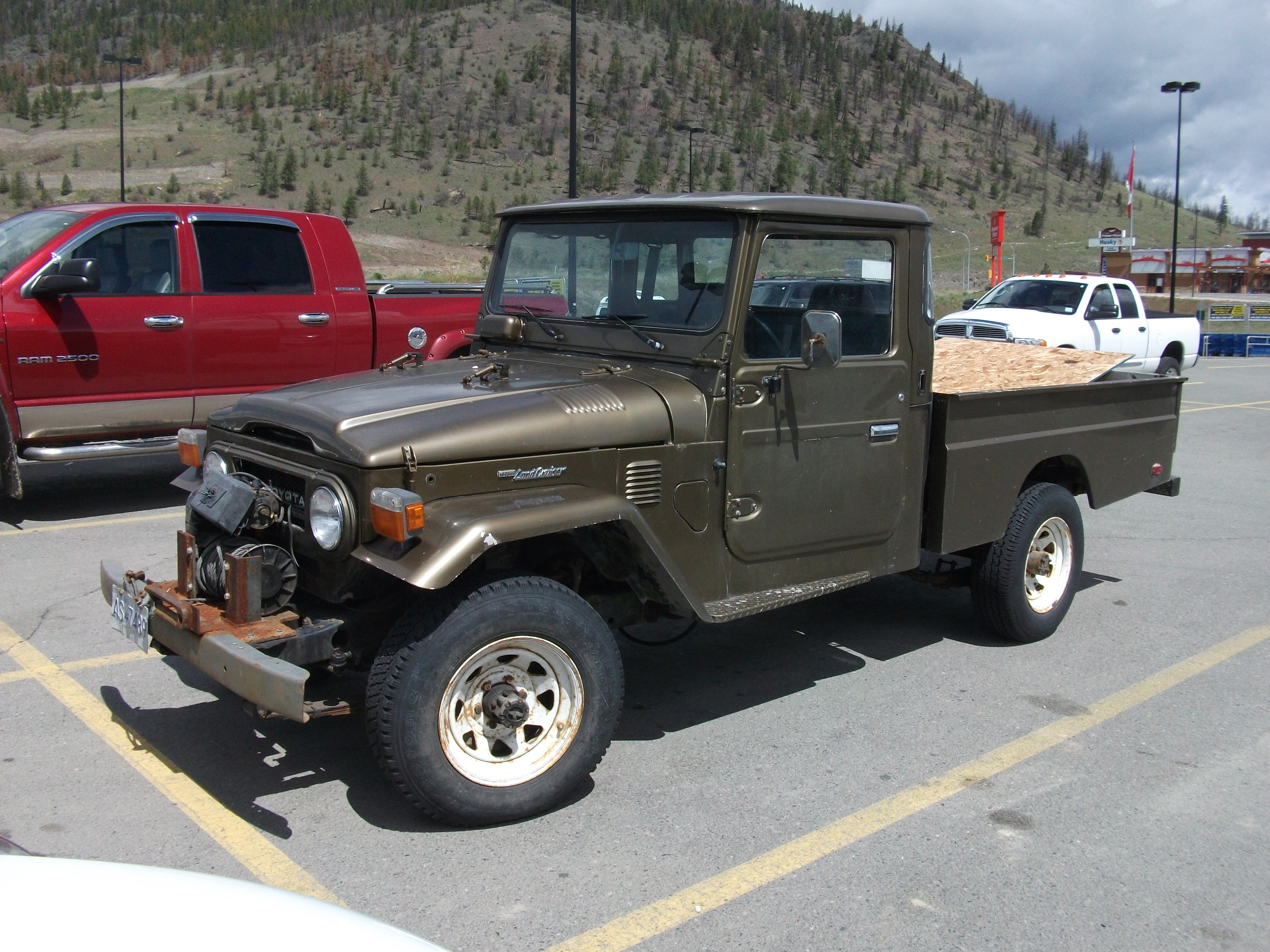 Nice shape Toyota Land Cruiser truck (FJ45LP)